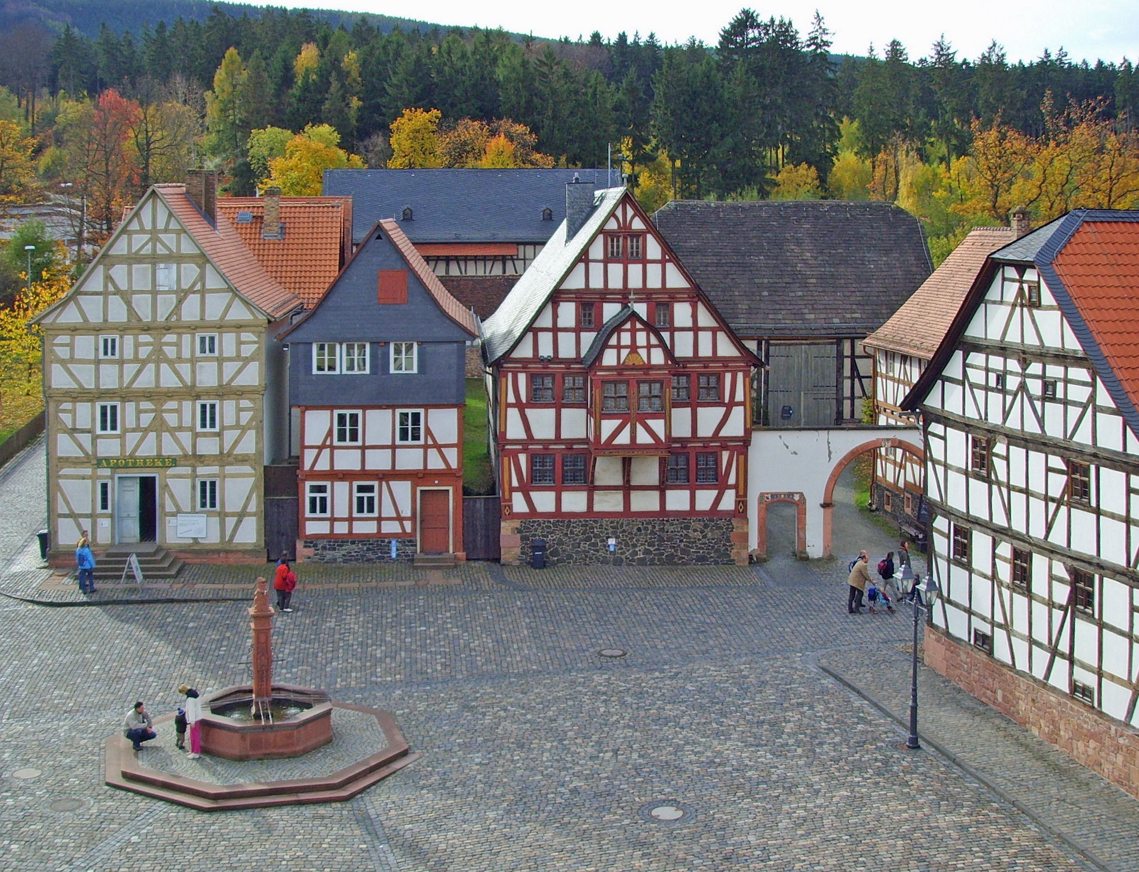 Open air museum "Hessenpark", Hessen, Germany